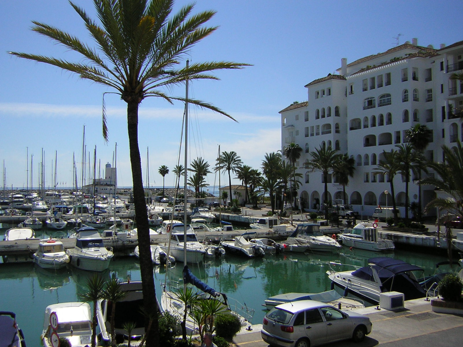 The harbour at Puerto de la Duquesa looking out to the control tower. Photo: Gary Beaumont, Manilva Life